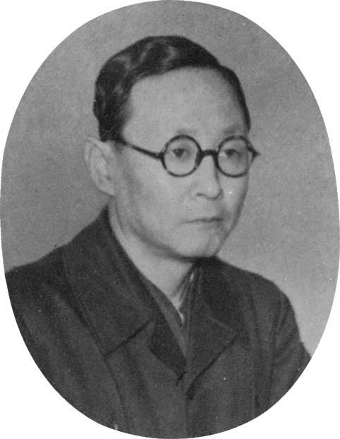 Kei Fujino.